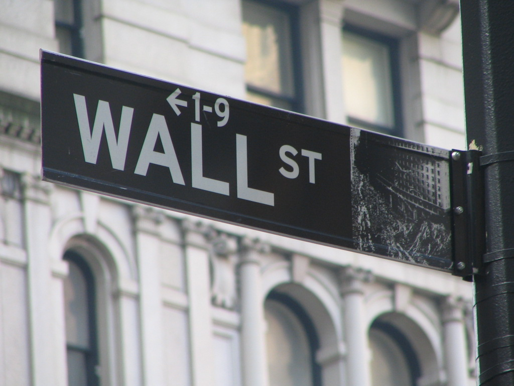 Wall Street Sign. Author: Ramy Majouji